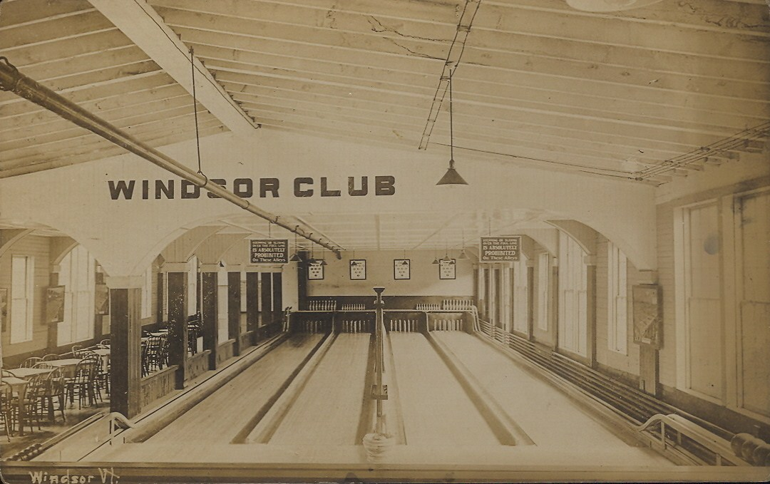 Postcard picture of the four bowling lanes of the Windsor Club of Windsor, Vermont, about 1910. Signs over the lanes state "Stepping or [sliding?] over the [foul?] line is absolutely prohibited On These Alleys", with different sets of bowling pins stored on a shelf above the pit areas for ten-pin bowling or duckpin bowling when the candlepins were not in use.